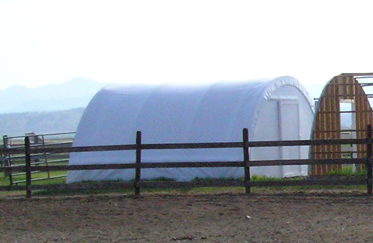 A small tension fabric building, approximately 20' x 20'. Custom made cover placed over a steel hoop frame. Used as a storage shed. Building has plywood ends